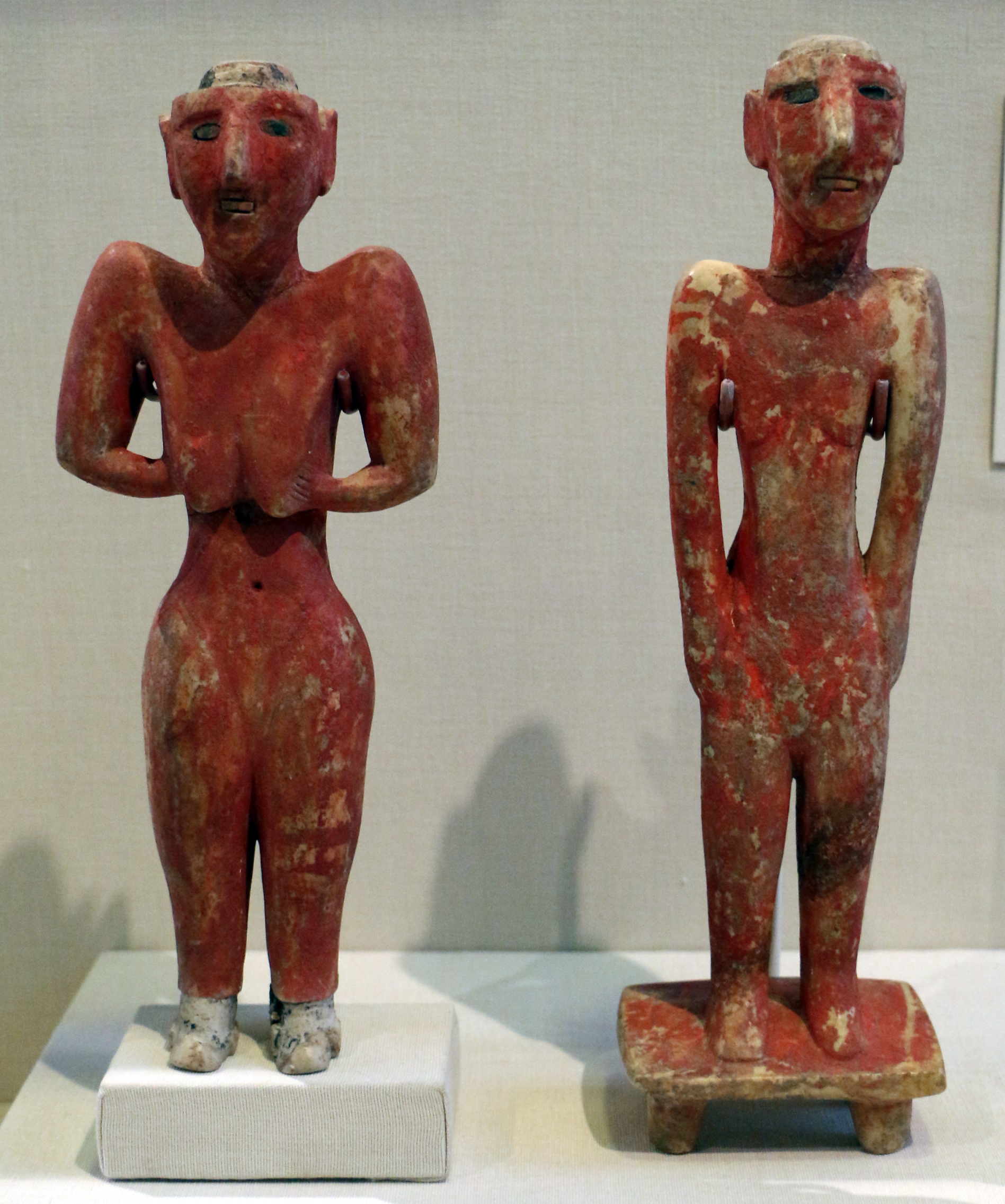 Oriental Institute Museum